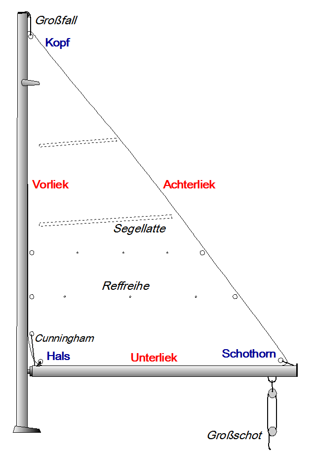 Mainsail (fore-and-aft-sail)